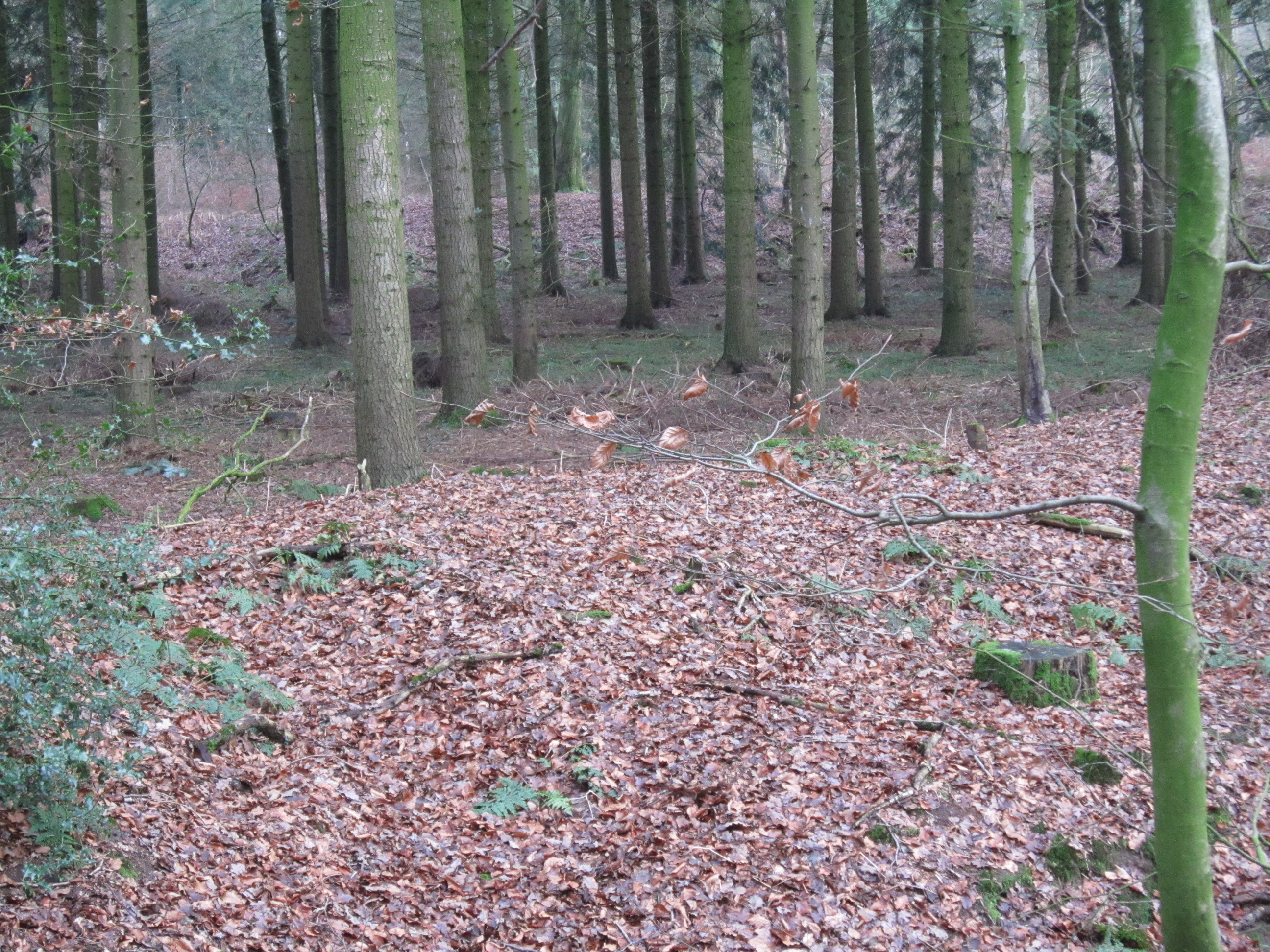 Outer (foreground) and inner (background) ring of the Arkeburg, an early historical hill fort in Goldenstedt, Landkreis Vechta (Lower Saxony)